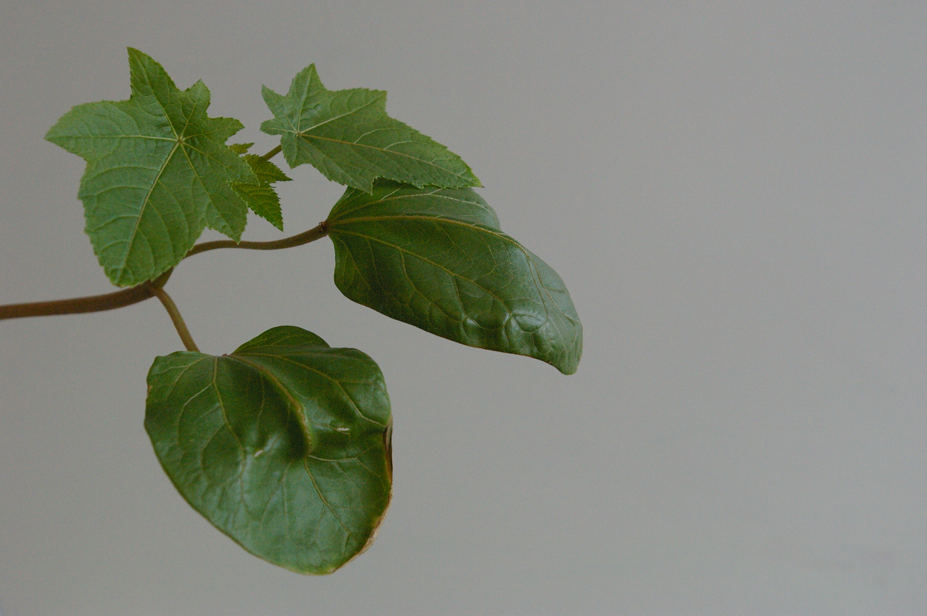 One month old castor bean sprouted from seed indoors. The first leaves produced by the plant are round, completely unlike all subsequent leaves which are severely serrated. This picture is taken during the brief period when the round leaves are still present and the first serrated leaves have appeared. The first leaves of a plant are colloquially referred to as its "teething" leaves.